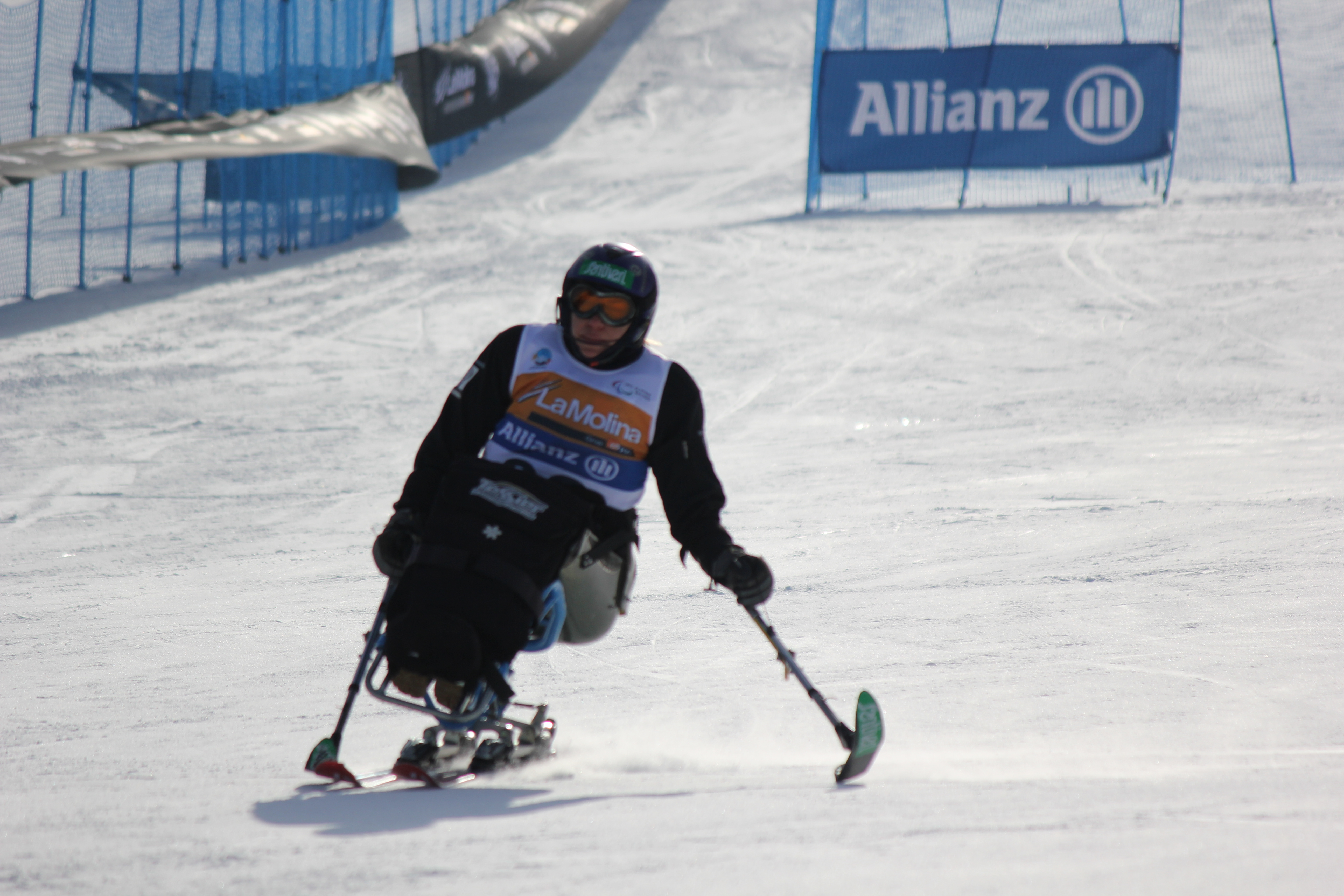 Nathalie Carpanedo of Spain. 2013 IPC Alpine World Championships at La Molina in Spain. Day 3 of competition. Slalom final.